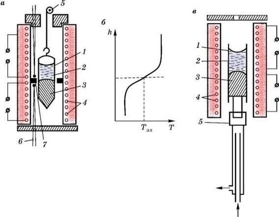 Bridgman–Stockbarger technique